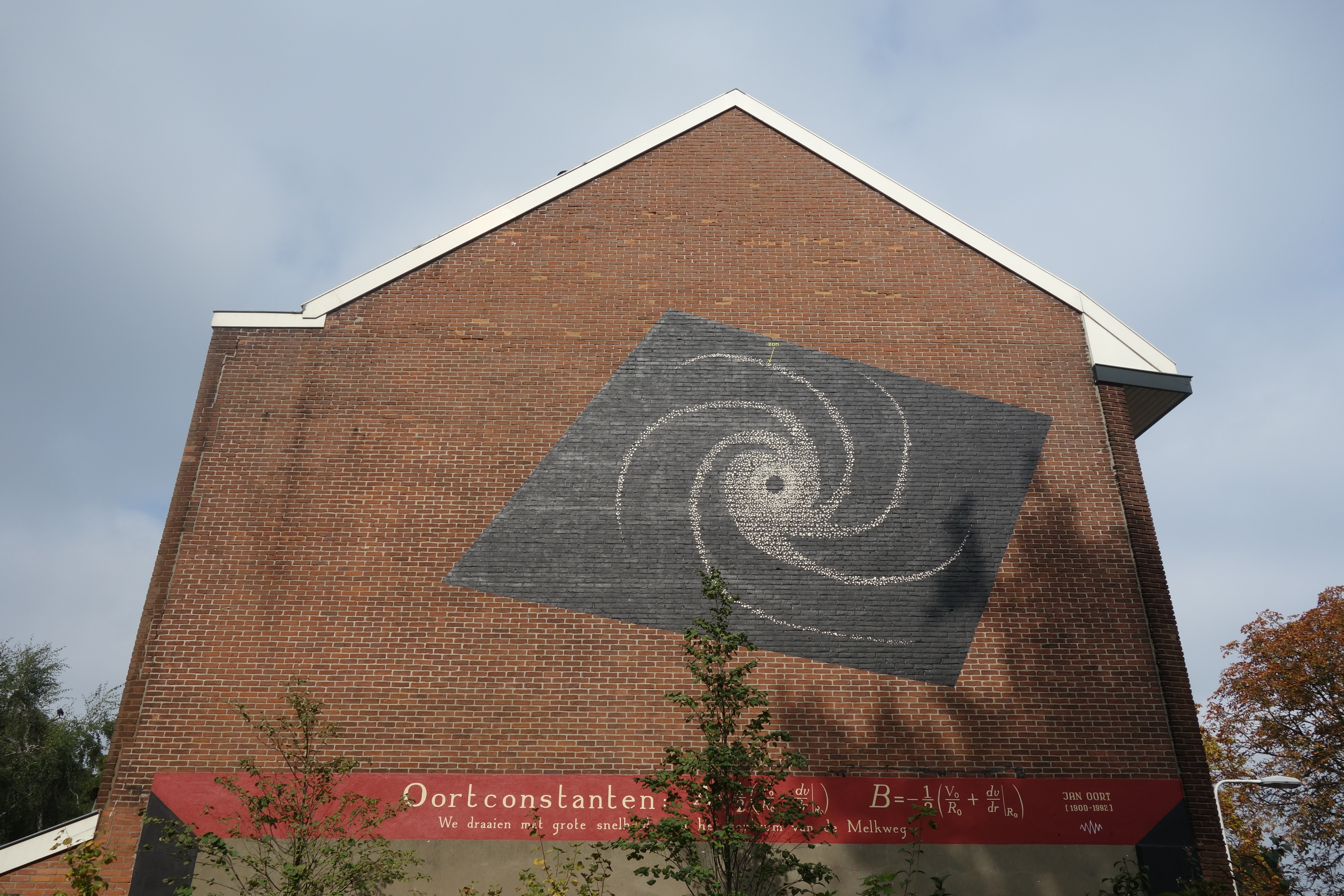 Oort's constants formulas on the wall of Witte Singel 58-C, Leiden (the Netherlands). A = 1 2 ( V 0 R 0 − d v d r | R 0 ) {\displaystyle A={\frac {1}{2 \left({\frac {V_{0 {R_{0 }-{\frac {dv}{dr |_{R_{0 \right)} , B = − 1 2 ( V 0 R 0 + d v d r | R 0 ) {\displaystyle B=-{\frac {1}{2 \left({\frac {V_{0 {R_{0 }+{\frac {dv}{dr |_{R_{0 \right)}